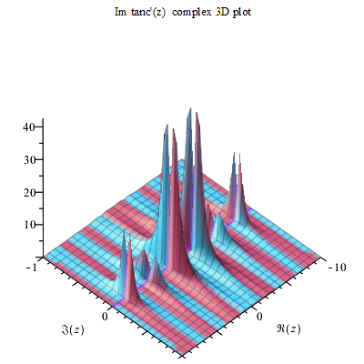 Tanc'(z) Im complex 3D plot